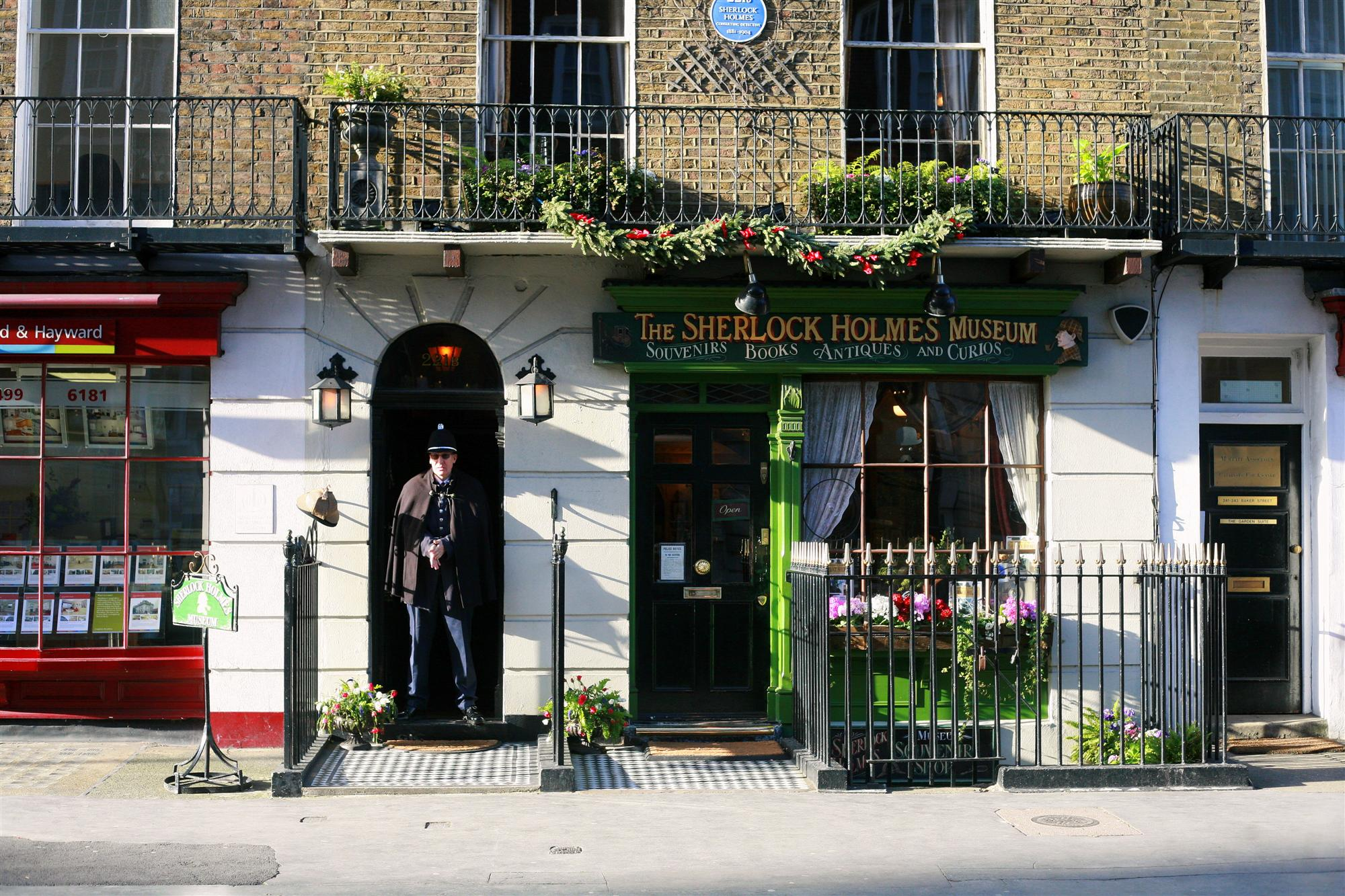 Sherlock Holmes museum, Baker Street 221B, London